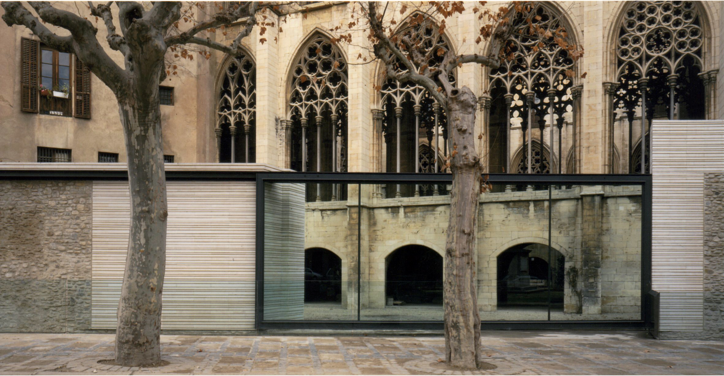 Reformation of Muralles de Vic build between 2000 and 2002